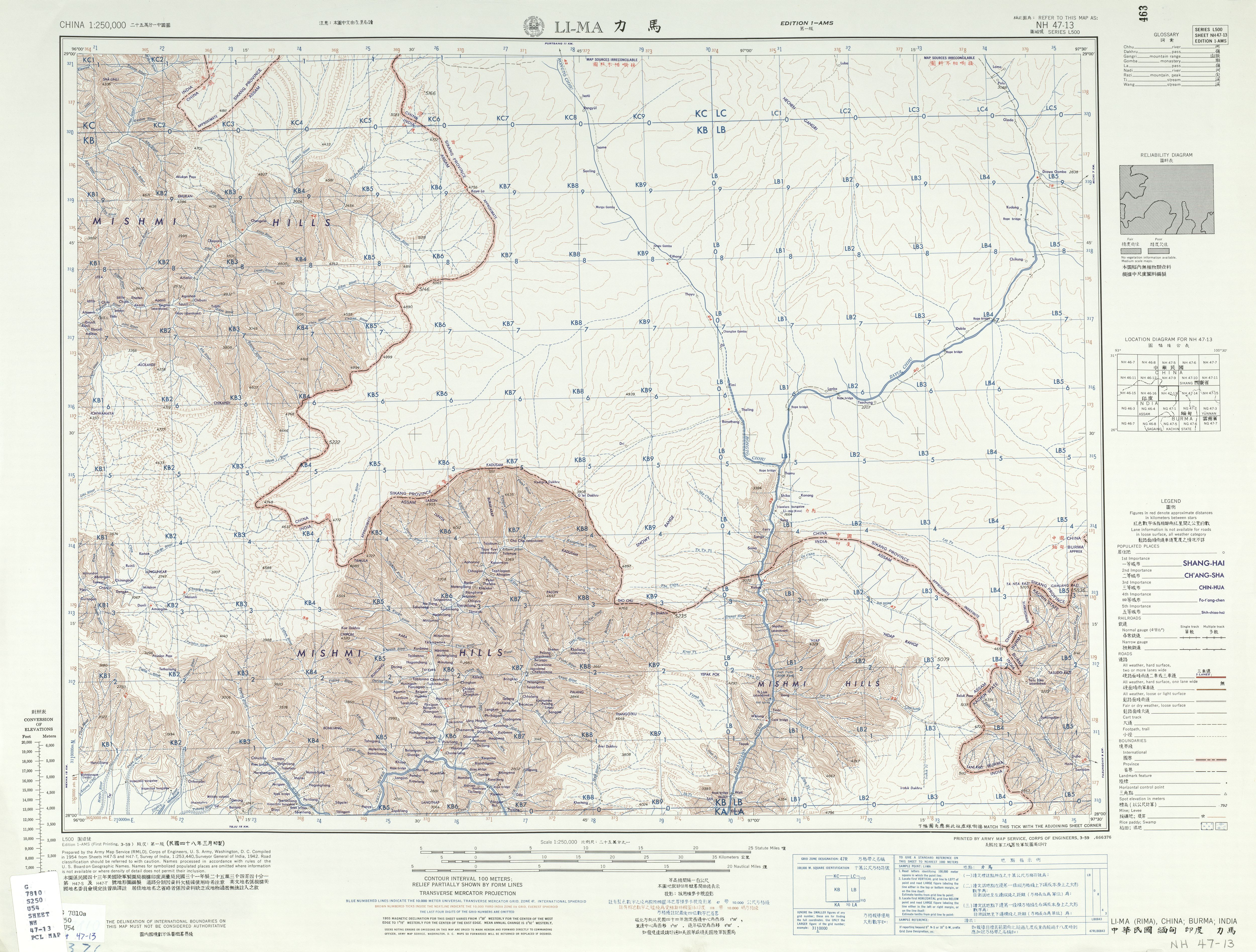 Map of Lima (Zayü County) area, Tibet